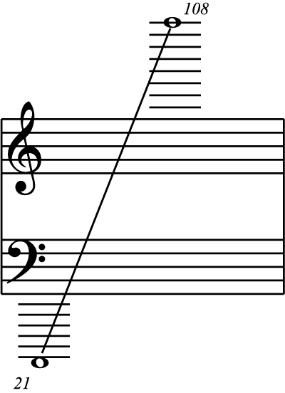 Range piano